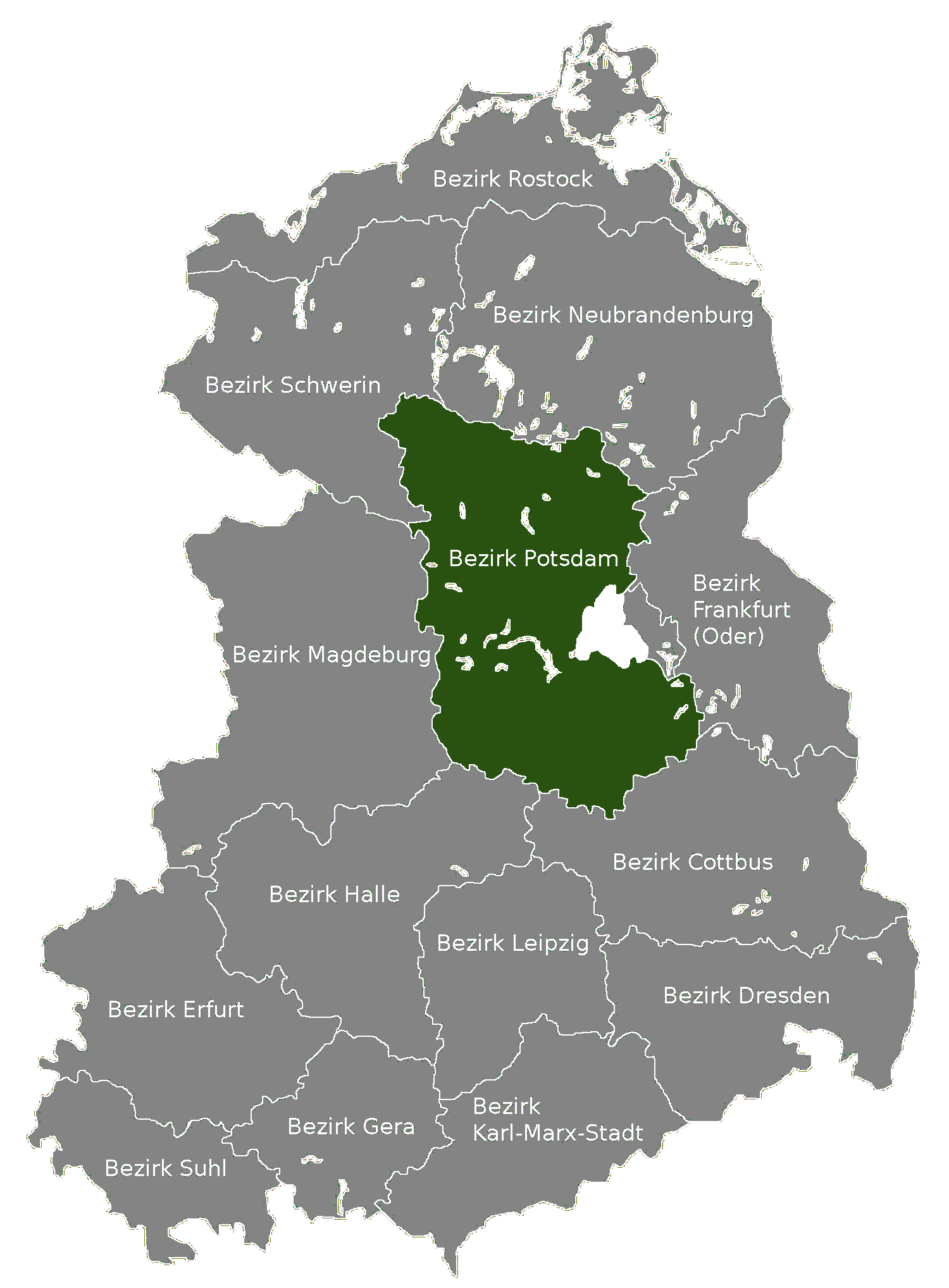 Map based on German Wikipedia